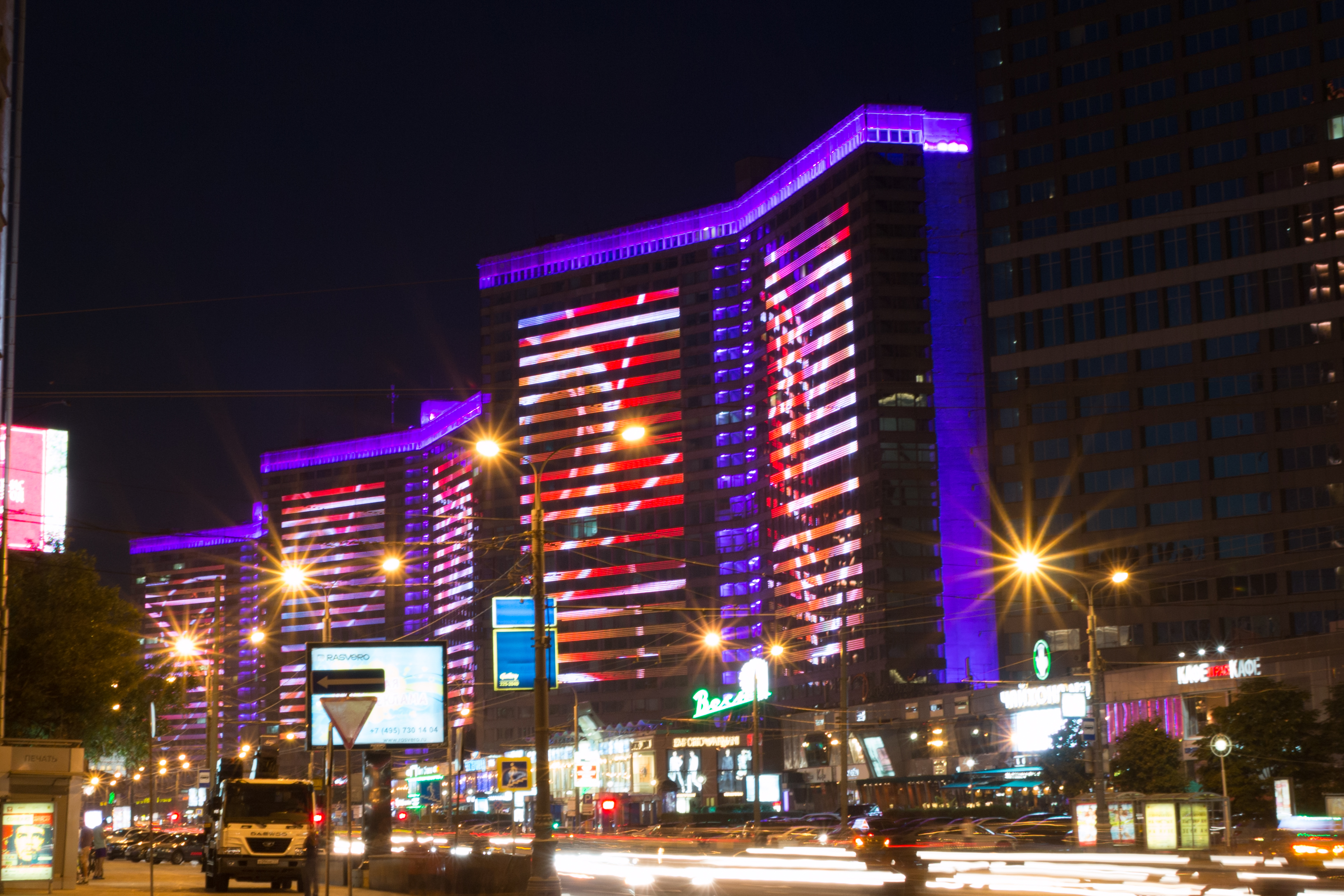 New Arbat Avenue is a major street in Moscow running west from Arbat Square on the Boulevard Ring to Novoarbatsky Bridge on the opposite bank of the Moskva River. The modern six-lane avenue (originally named Kalinin Prospekt from 1968-1994), along with two rows of high-rise buildings, was constructed between 1962 and 1968, and was literally cut through the old, narrow streets of the Arbat District.